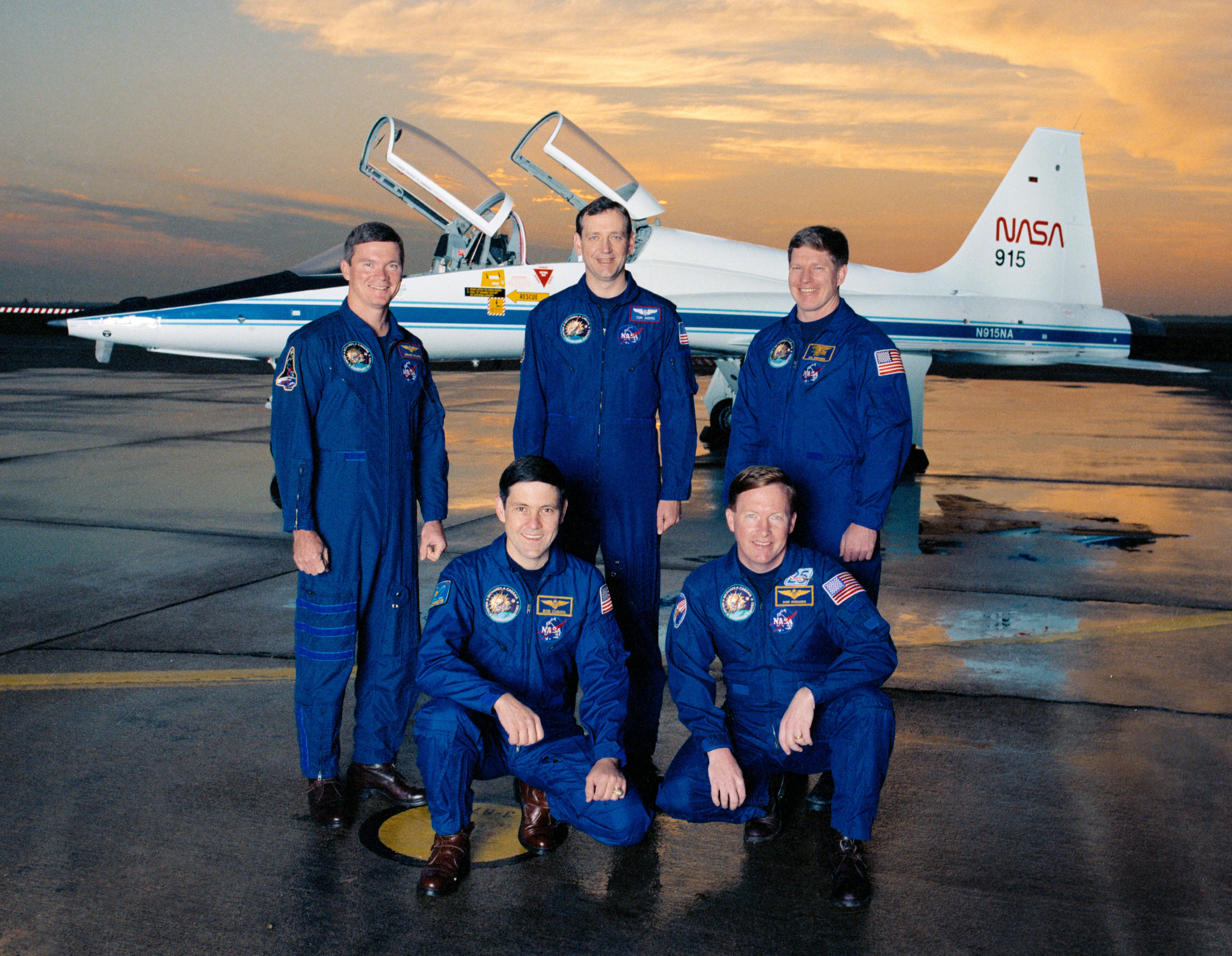 The 5 member crew of the STS-41 mission included (left to right): Bruce E. Melnick, mission specialist 2; Robert D. Cabana, pilot; Thomas D. Akers, mission specialist 3; Richard N. Richards, commander; and William M. Shepherd, mission specialist 1. Launched aboard the Space Shuttle Discovery on October 6, 1990 at 7:47:15 am (EDT), the primary payload for the mission was the ESA built Ulysses Space Craft made to explore the polar regions of the Sun. Other main payloads and experiments included the Shuttle Solar Backscatter Ultraviolet (SSBUV) experiment and the INTELSAT Solar Array Coupon (ISAC).